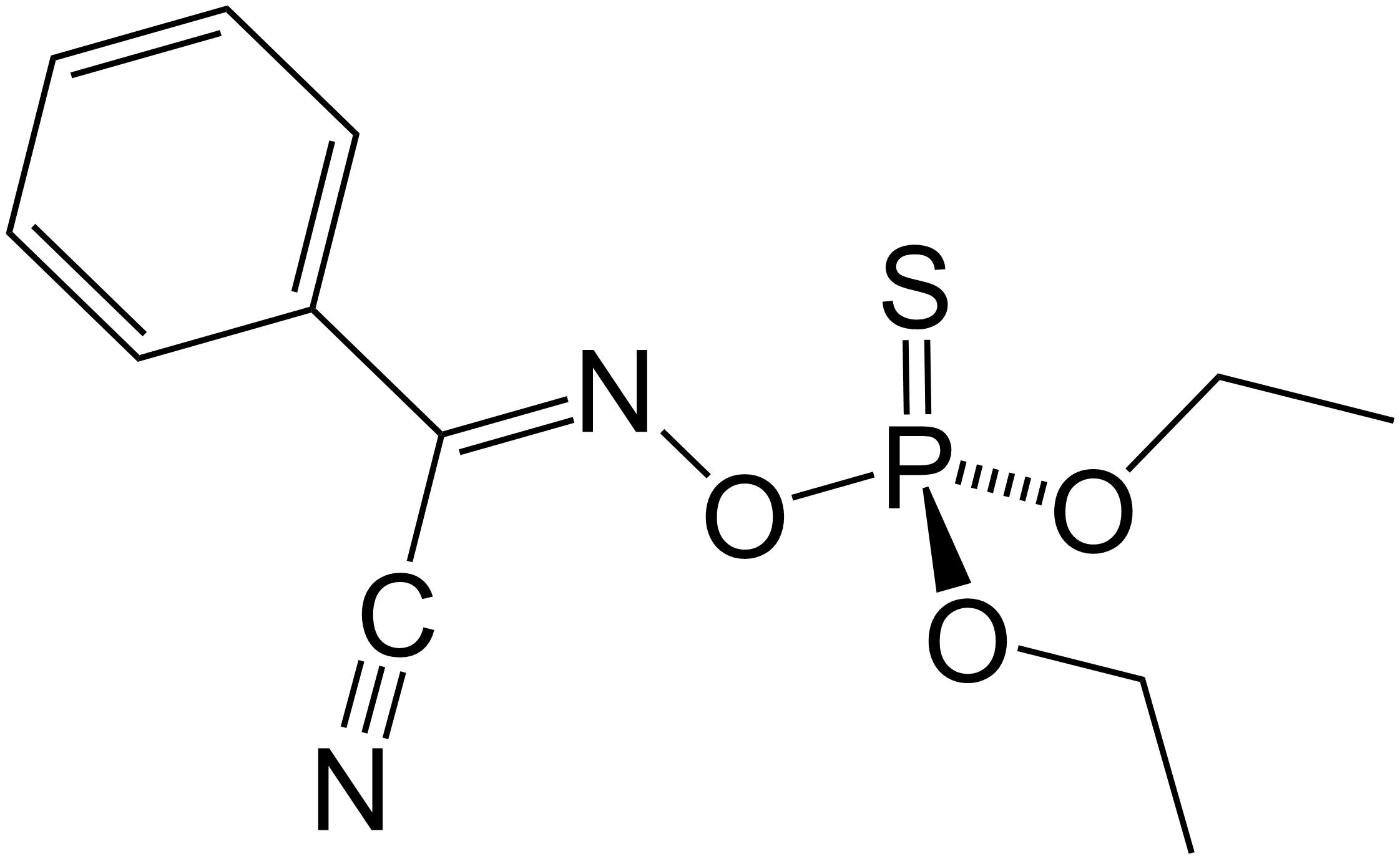 Phoxim 2D molecular structure